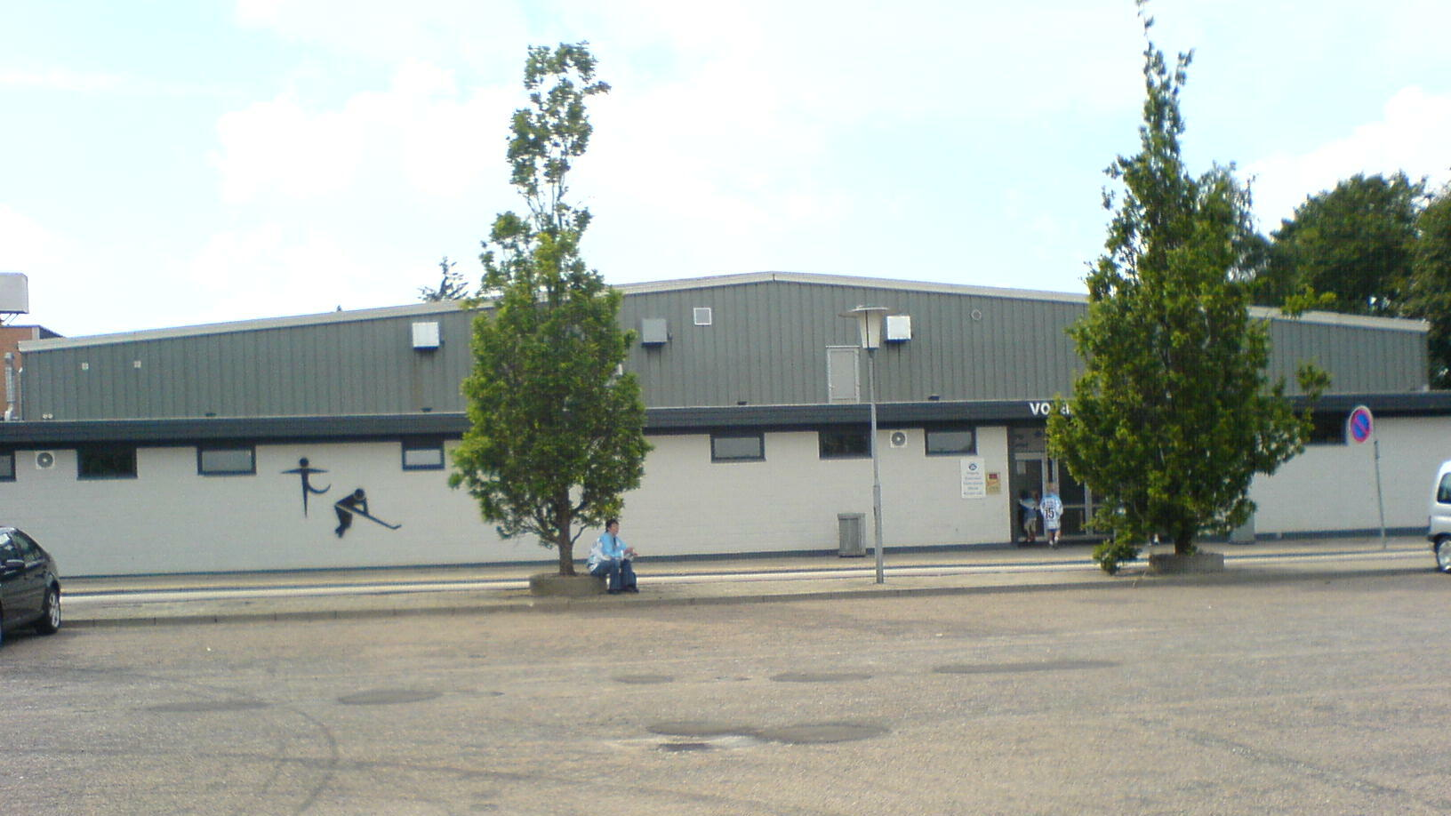 Ice hockey arena of SønderjyskE, Denmark